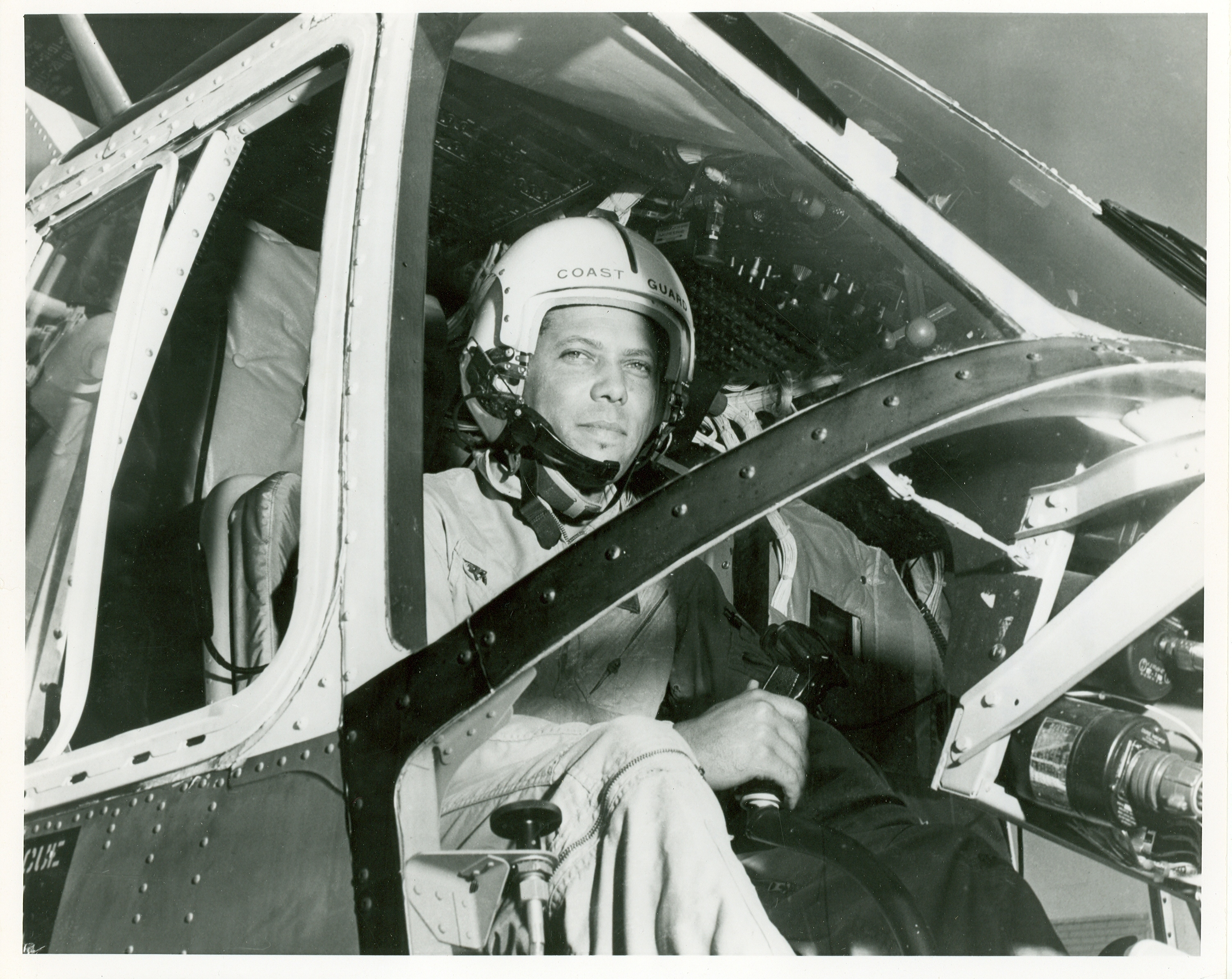 Commander Bobby C. Wilks, highest ranking African-American in the Coast Guard, became an Aviator less than two years after he entered the Coast Guard Reserve in 1955. He transferred to the regular Coast Guard in 1960. He has carried out many rescue flights from various Coast Guard Air Stations during his military career. CDR Wilks is shown here preparing to pilot a helicopter on a patrol mission out of the Coast Guard Air Station, Barber's Point, Hawaii, where he also served as Operations Officer. Photo dated 12 October 1971 (release date).